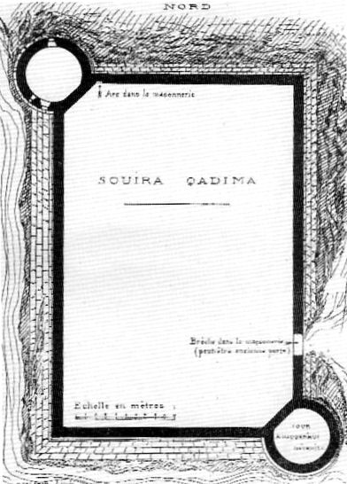 Souia_Qadima_Edmond_Doutte_1867_1926.